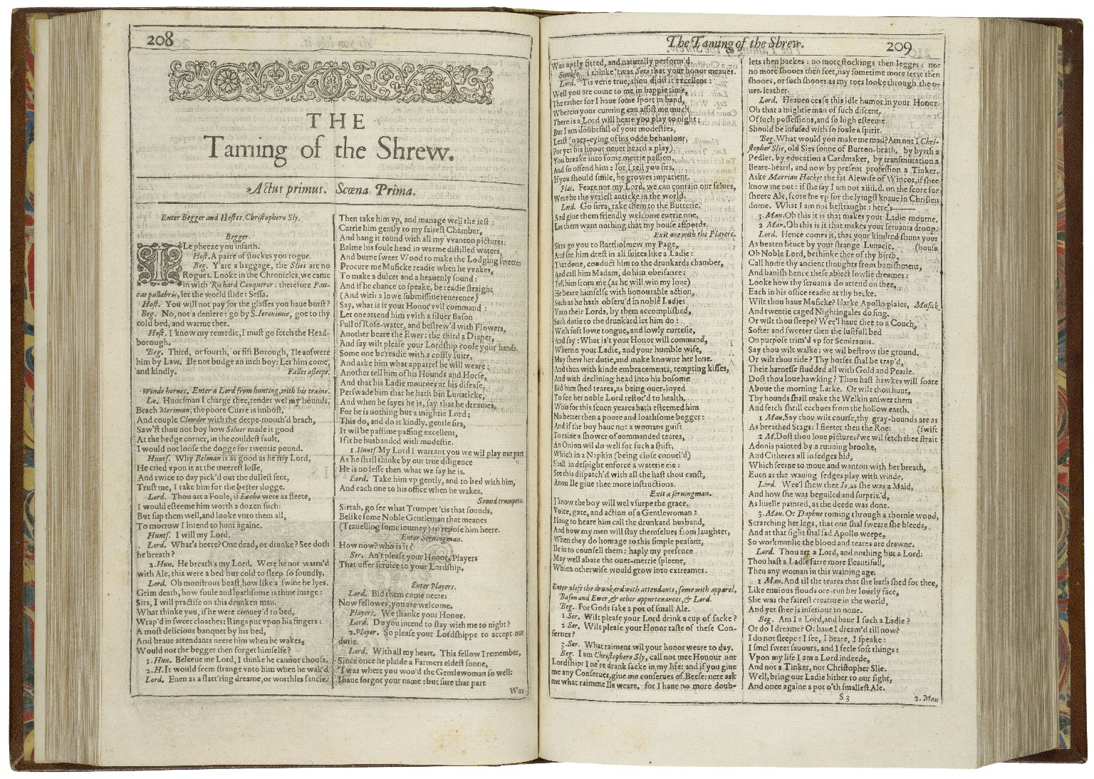 The first page of Shakespeare's The Taming of the Shrew, printed in the First Folio of 1623